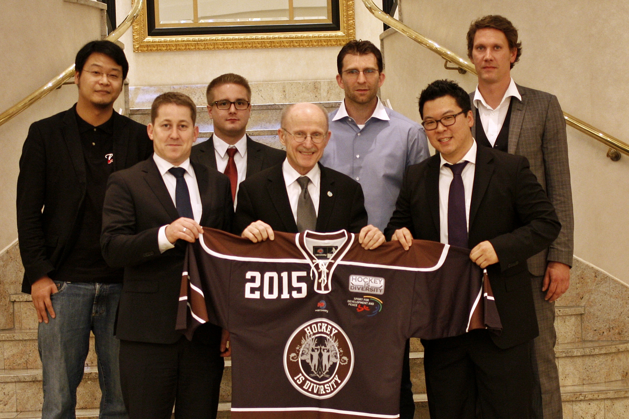 UN Special Advisor on Sports for Development and Peace Willi Lemke receives a Hockey is Diversity jersey